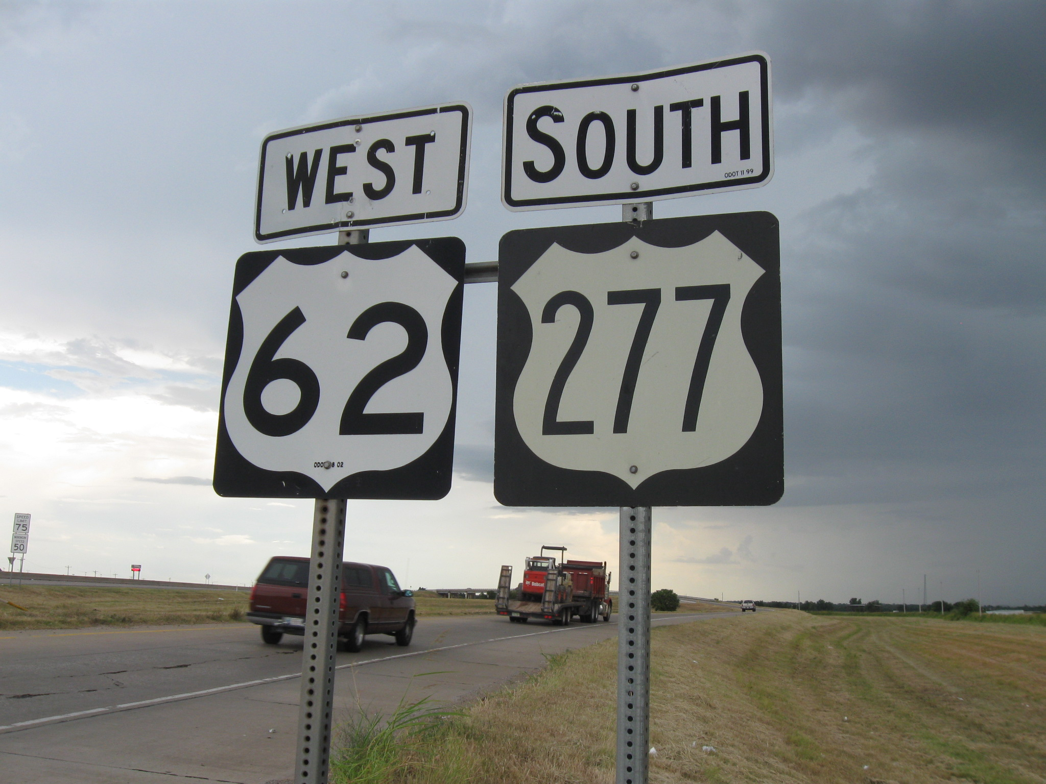 The first standalone southbound shield for US-277 in Newcastle, Oklahoma. Also present is signage for US-62.